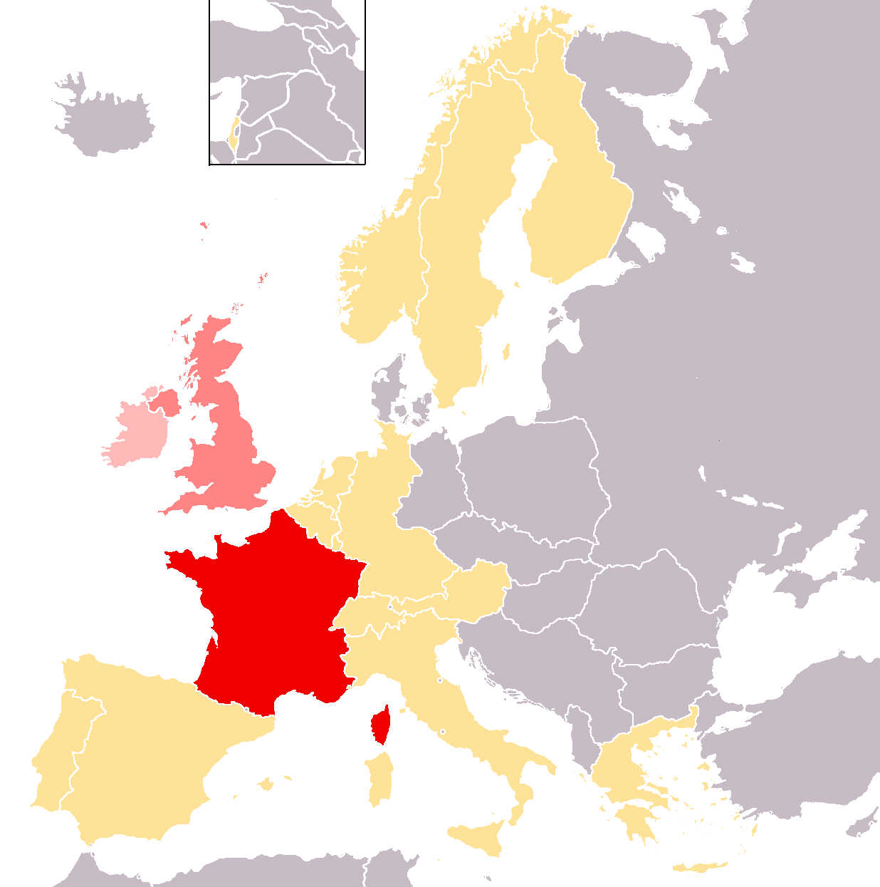 Map of Eurovision 1977